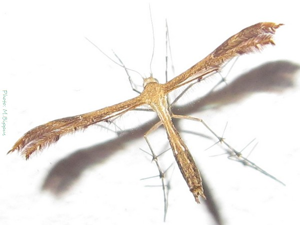 Pterophorus wahlbergi (Stenodacma wahlbergi) (Zeller, 1852) Pterophoridae wingspan 15mm Picture was taken in Réunion